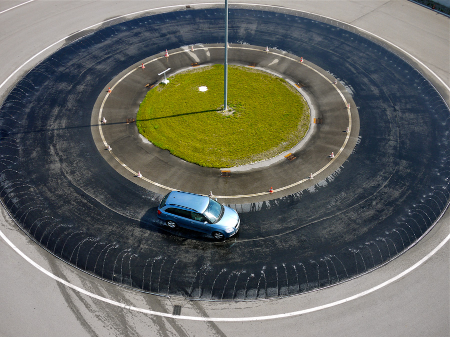 Car on the wet skid circle of the ARBÖ driving safety center in Vienna - Aerial Photography